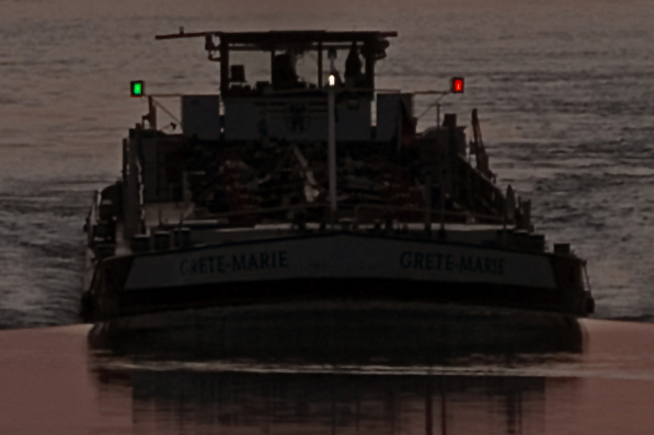 Marine position lights at a ship (Rhine-Herne Canal)